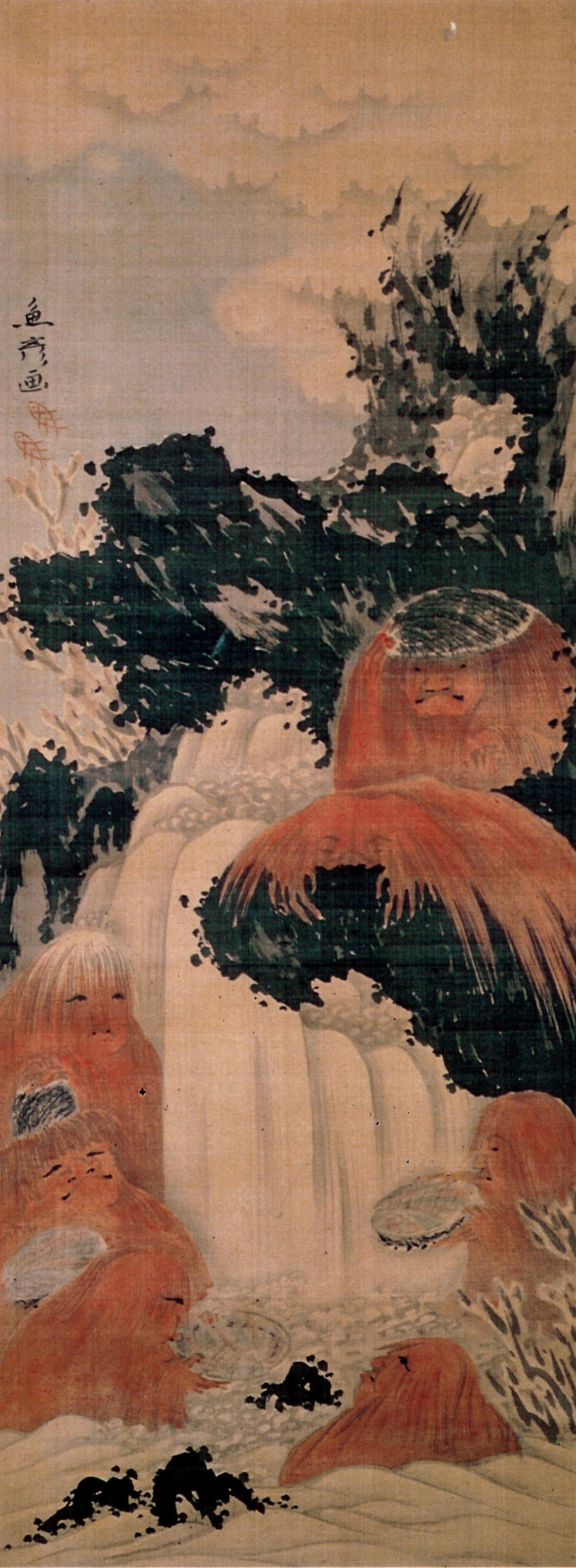 Katori Nahiko,Shōjō,A hanging scroll Ink abd slight color on silk,Middle Edo period.